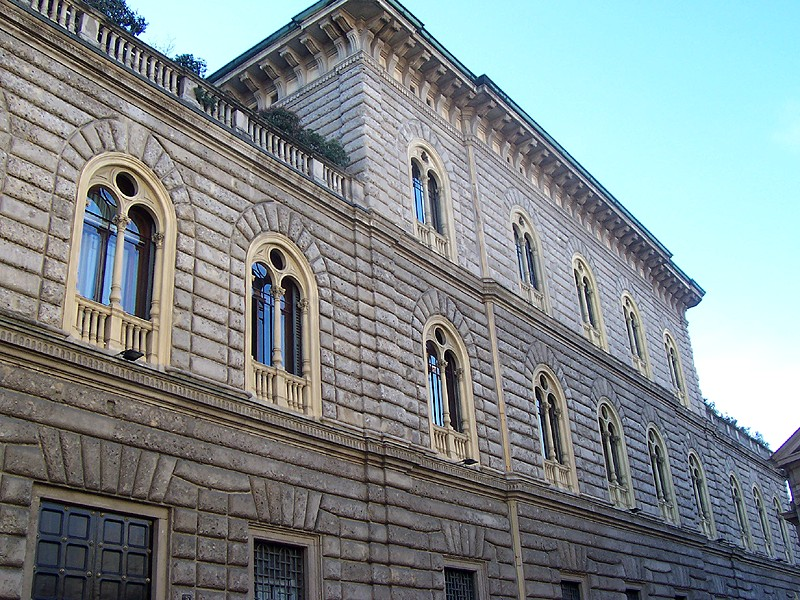 The palace dubbed Ca' de Sass ("stone house"), built as headquarter for former "Cassa di Risparmio delle Province Lombarde" bank (now Banca Intesa).